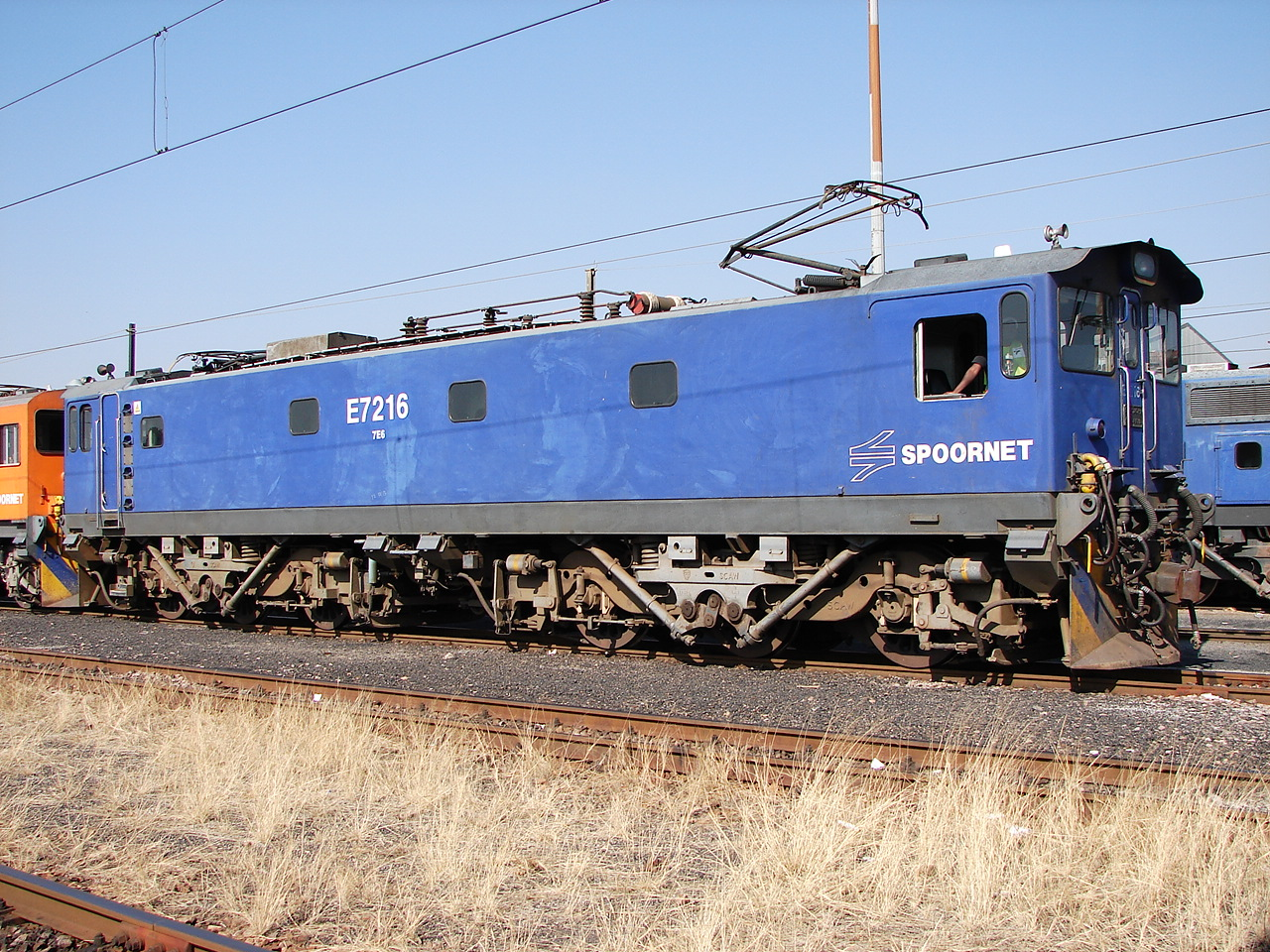 SAR Class 7E3 Series 1 E7216Location: Pyramid South, Pretoria, Gauteng